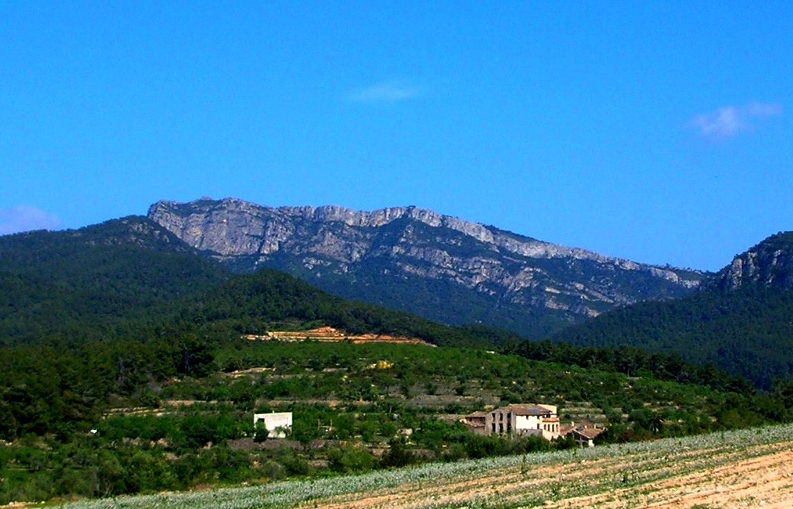 Montalt mountain as seen from La Serra d'Almós